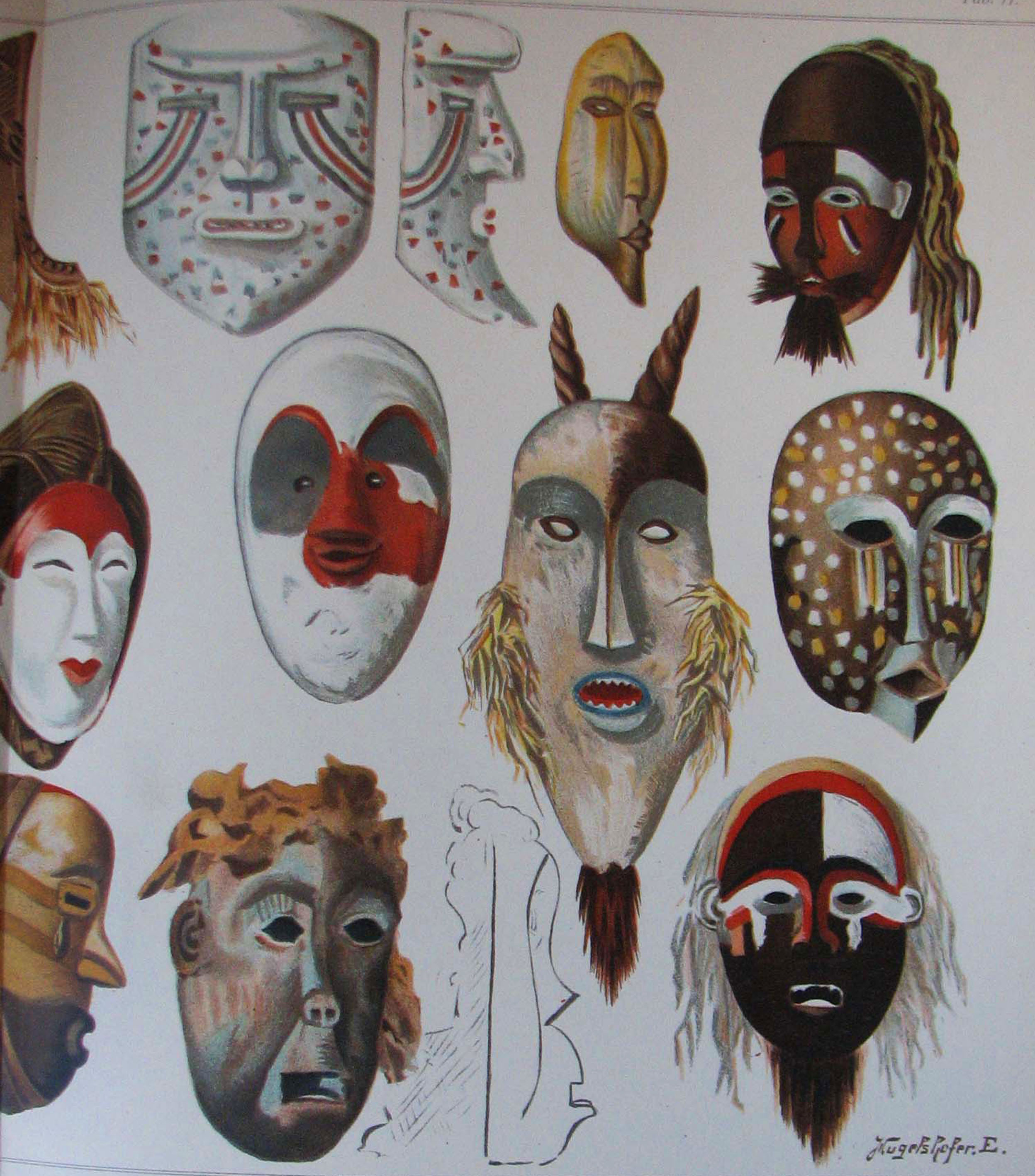 Various Congo mask published by Leo Frobenius in his 1898 Die Masken und Geheimbunde Afrika. Table II.